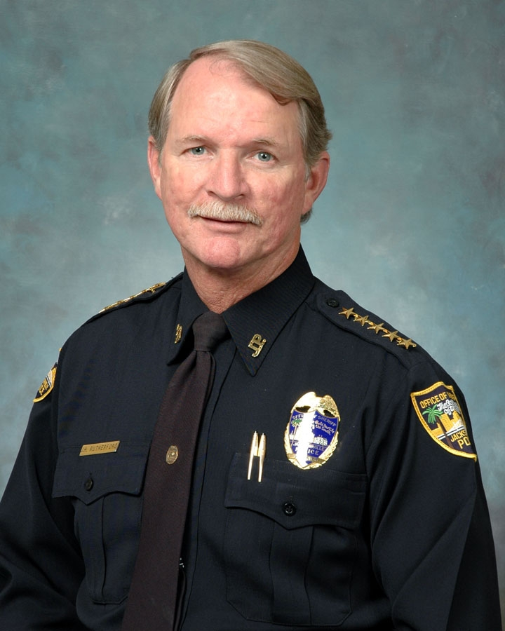 John Rutherford, Florida politician